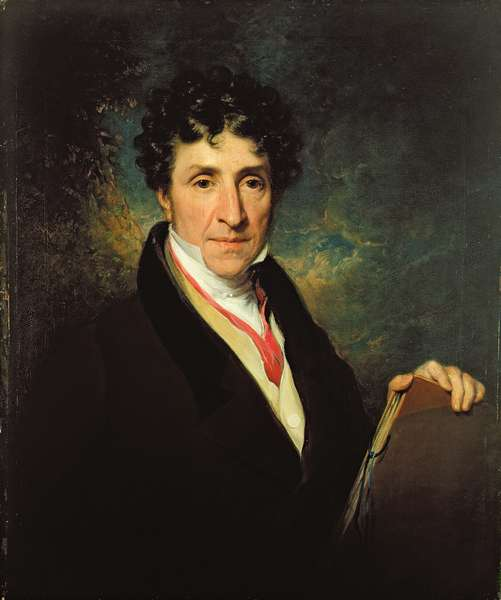 Charles Henry Scwanfelder (b. 1774 in Leeds - d. 1837 in Leeds) was an English animal, landscape and portrait painter. He was the son of a German decorative painter and started out helping his father to paint clock faces and snuff boxes. He was renowned for his animal paintings and was appointed animal painter to George III.